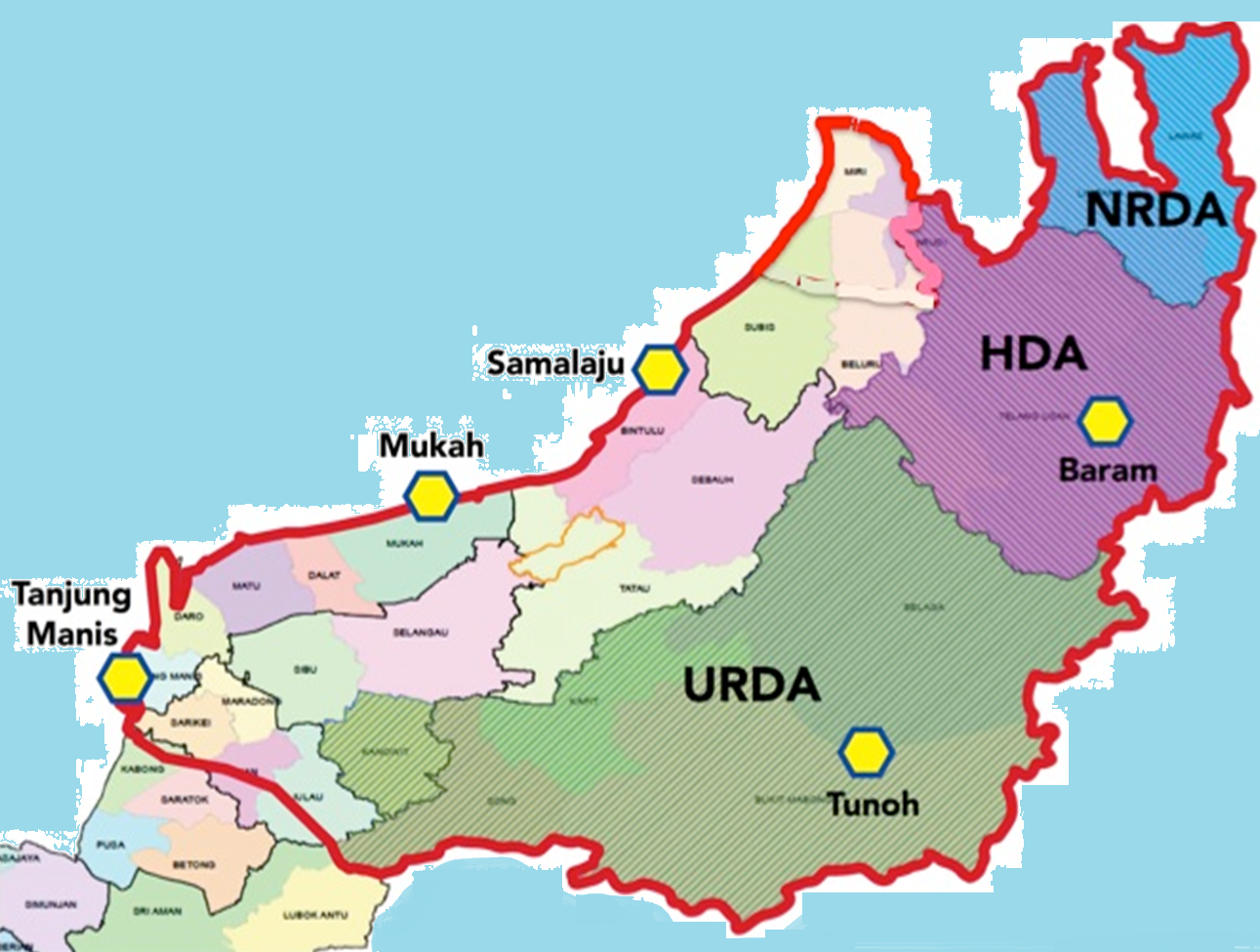 Sarawak Corridor of Renewable Energy as at 31 July 2019.